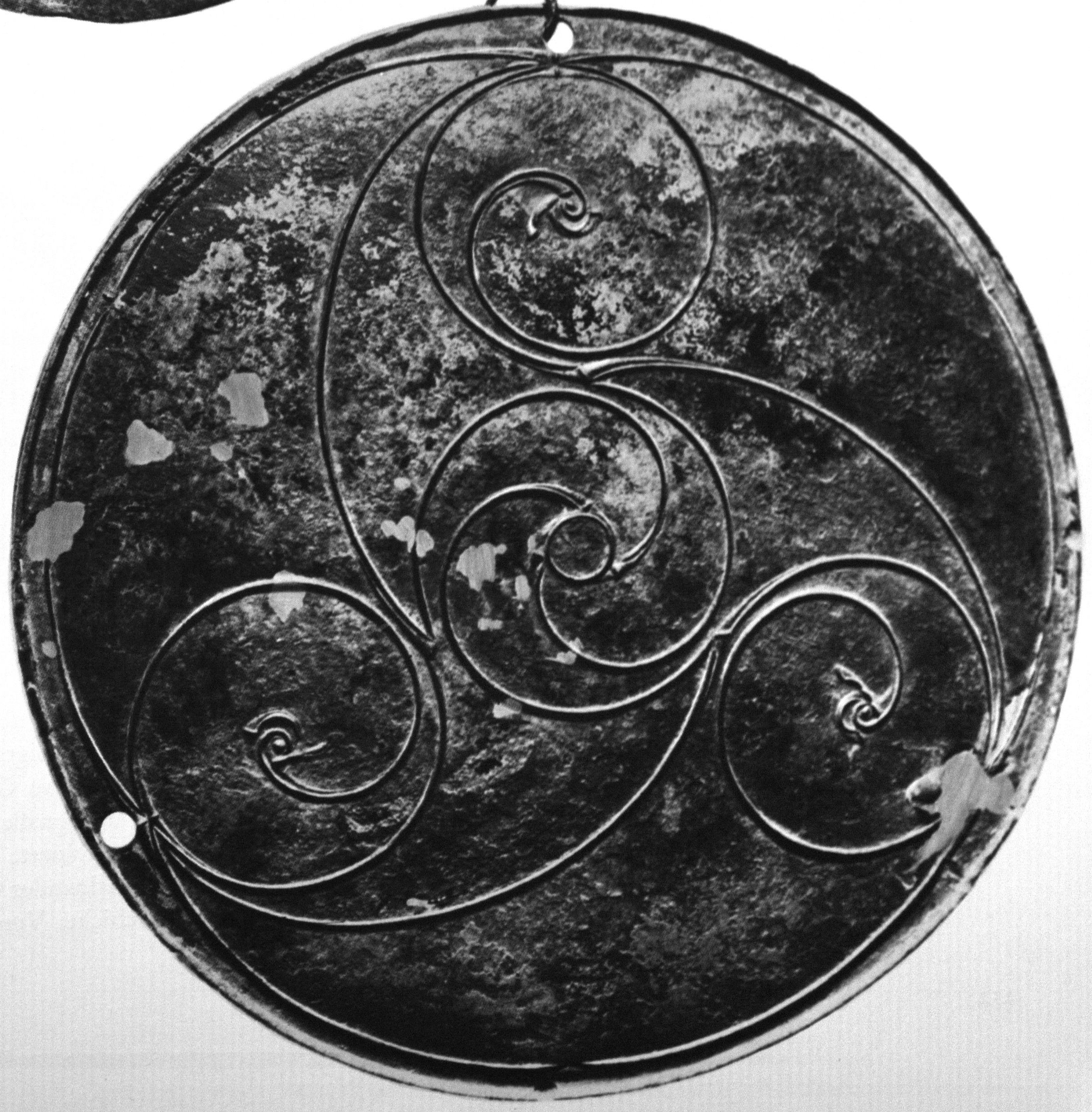 Celtic bronze disc with yin yang whorl in a triskele arrangement spawning three stylized bird heads; find spot: Longban Island, Derry; pre-Christian period; on display at Ulster Museum in Belfast